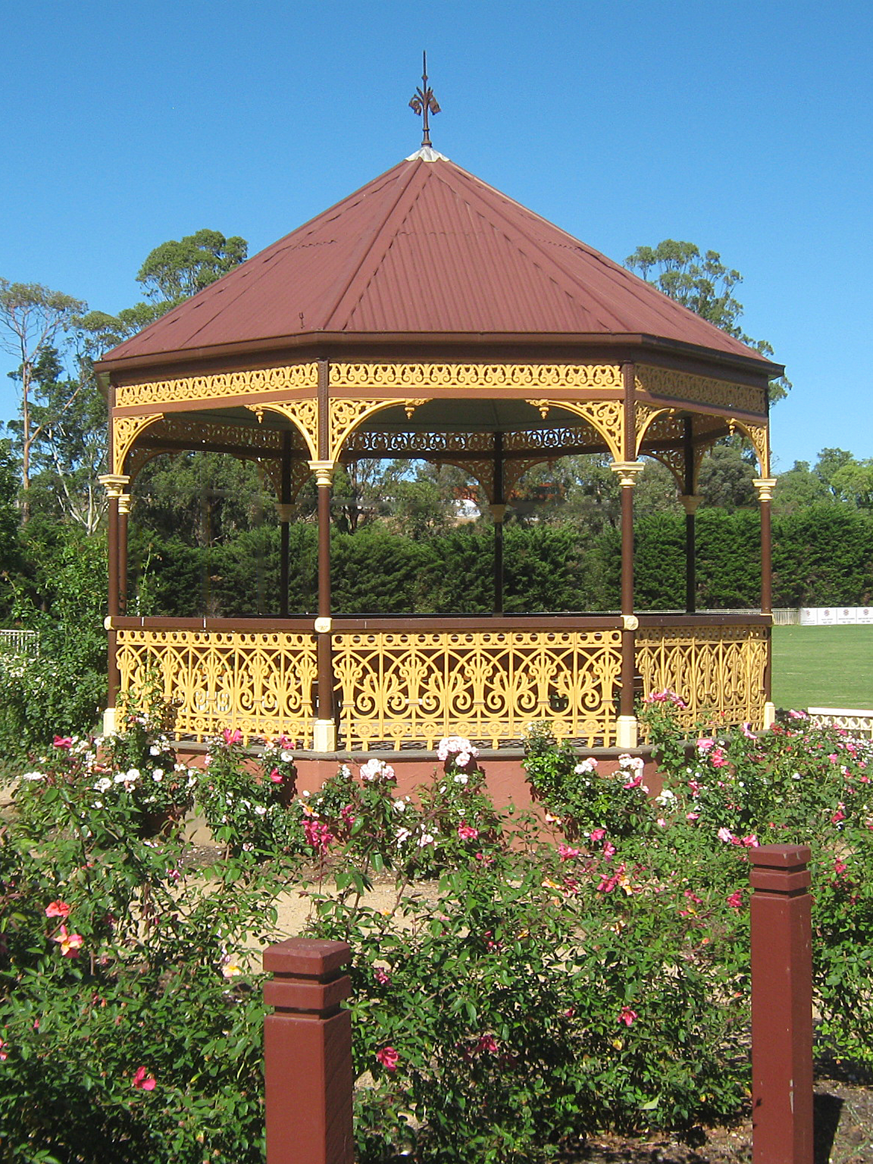 Dickie bandstand 1905 Maddingley Park, Bacchus Marsh, Victoria